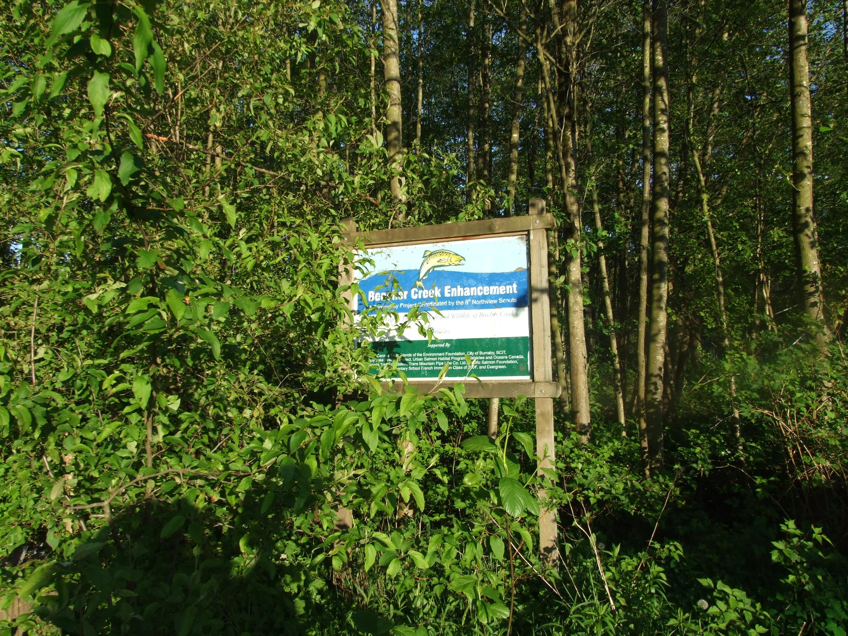 A sign near Beecher Creek in Burnaby BC